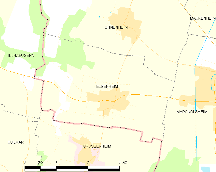 Map of French municipality